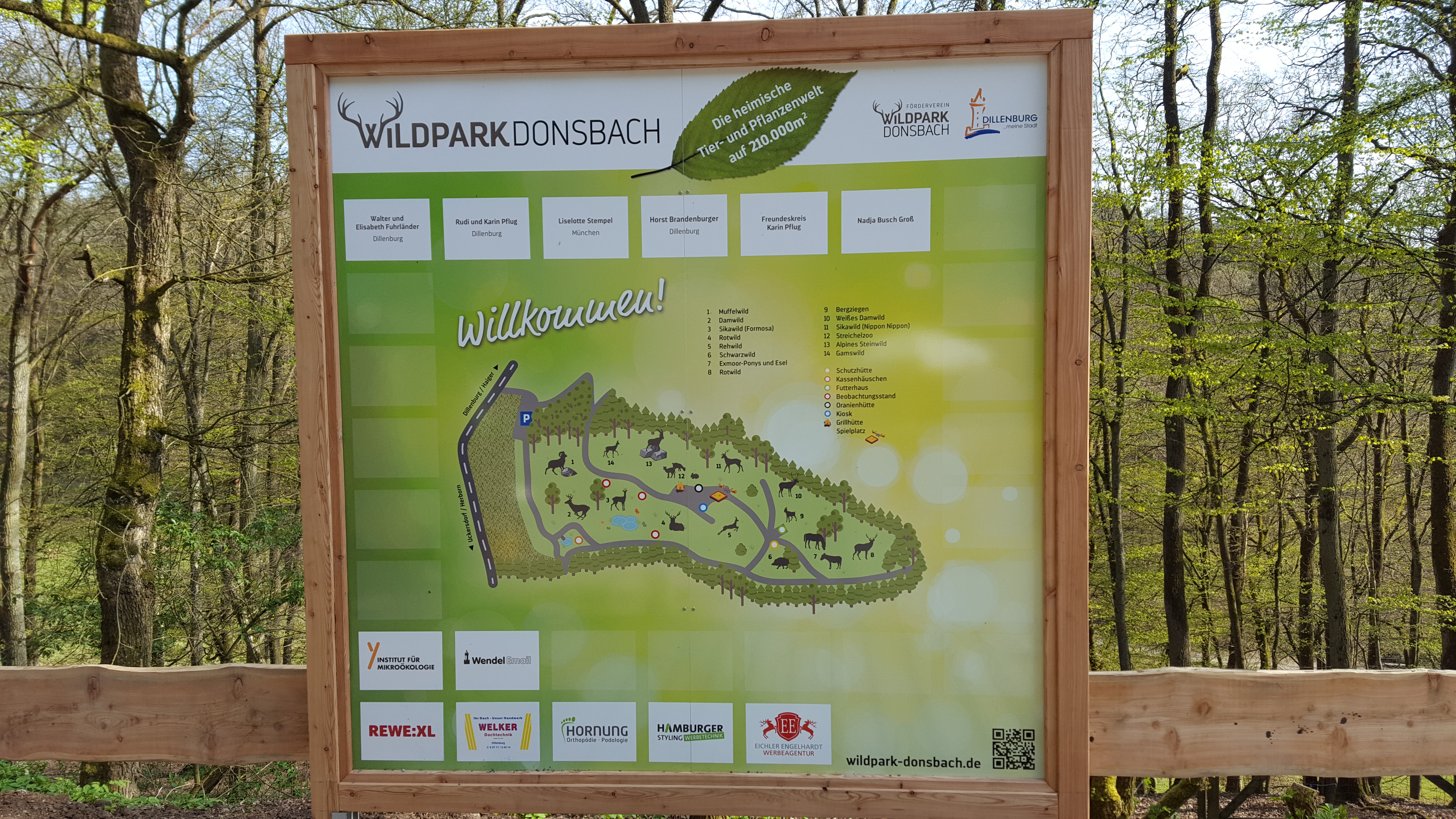 Übersichtsplan des Tierparks Donsbach (Dillenburg)